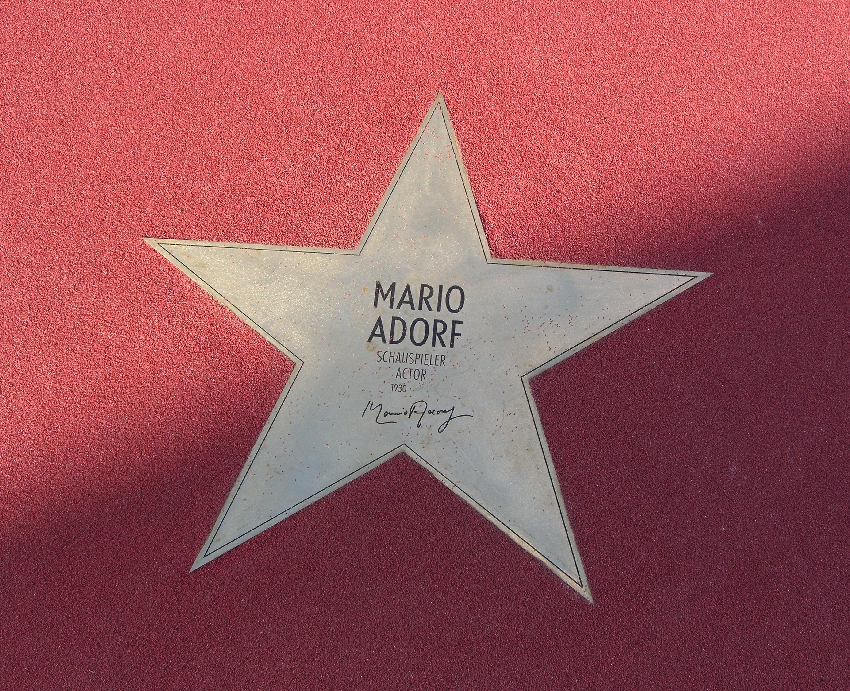 Star of Mario Adorf at "Boulevard der Stars" in Berlin.